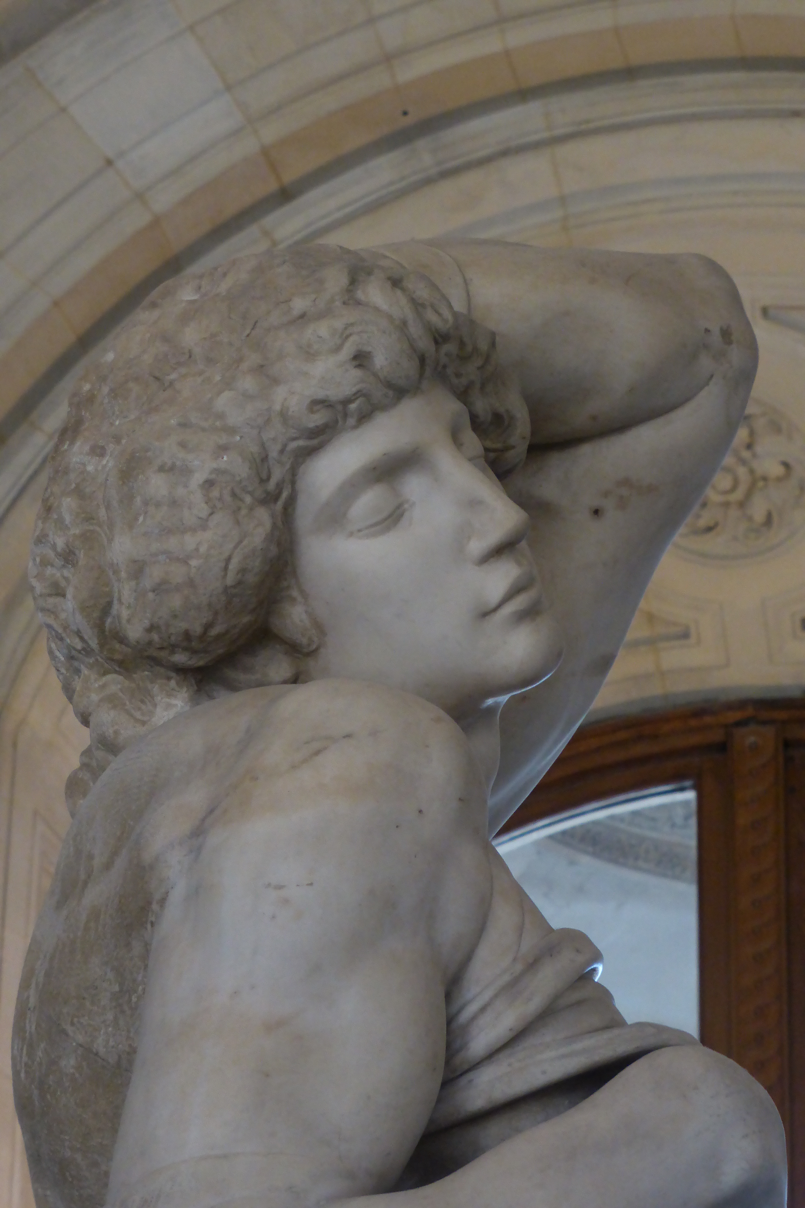 Michelangelo: Dying Slave for the Tomb of Julius II., c. 1513-15, Paris, Louvre